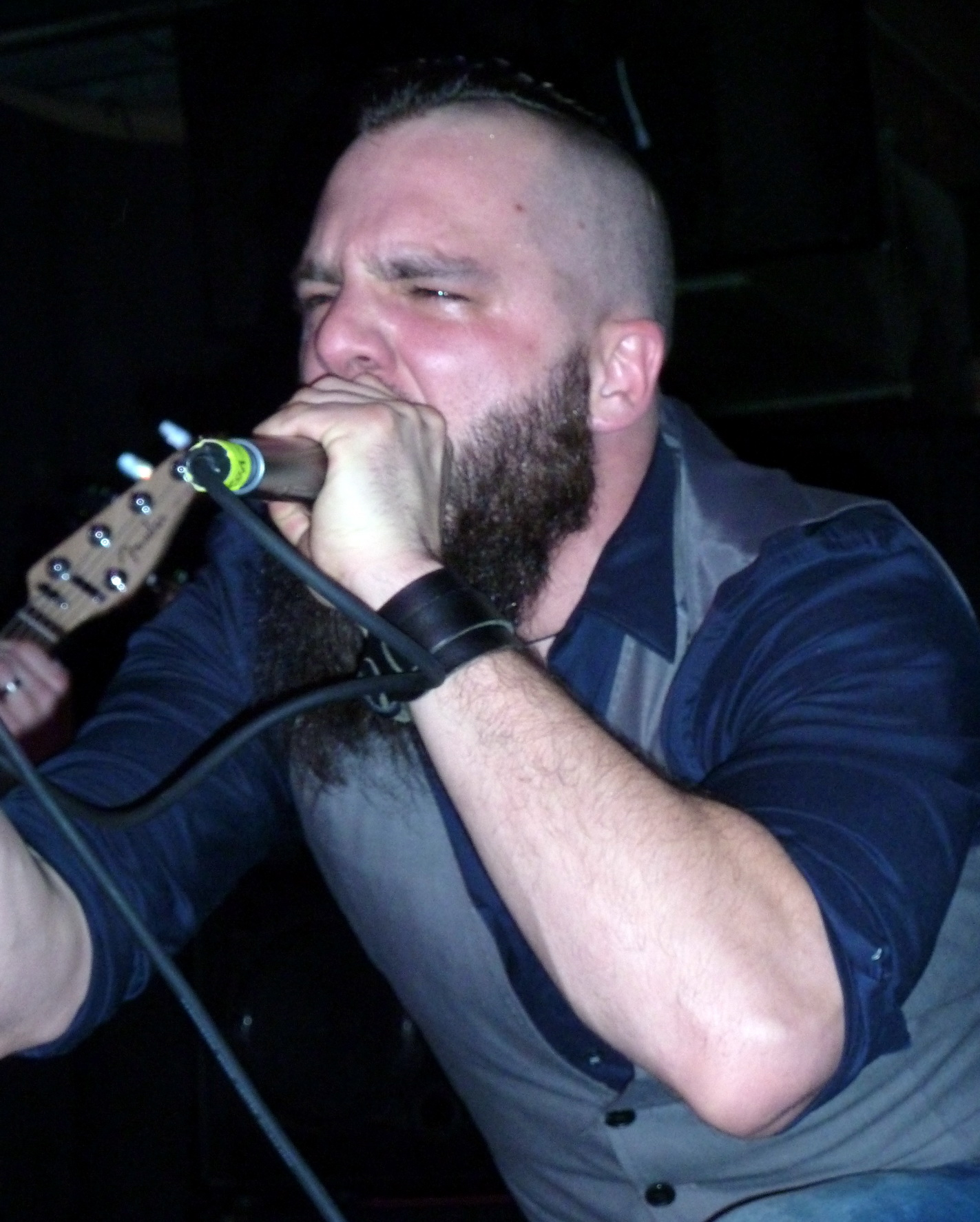 Jesse Leach performing with Times of Grace